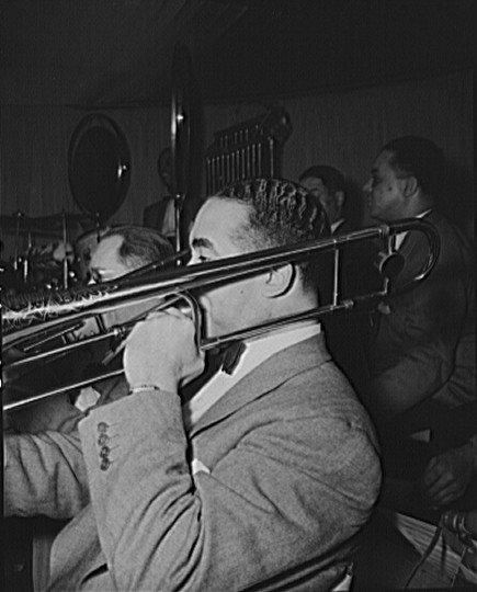 Lawrence Brown, trombonist with Duke Ellington's orchestra. New York, New York.